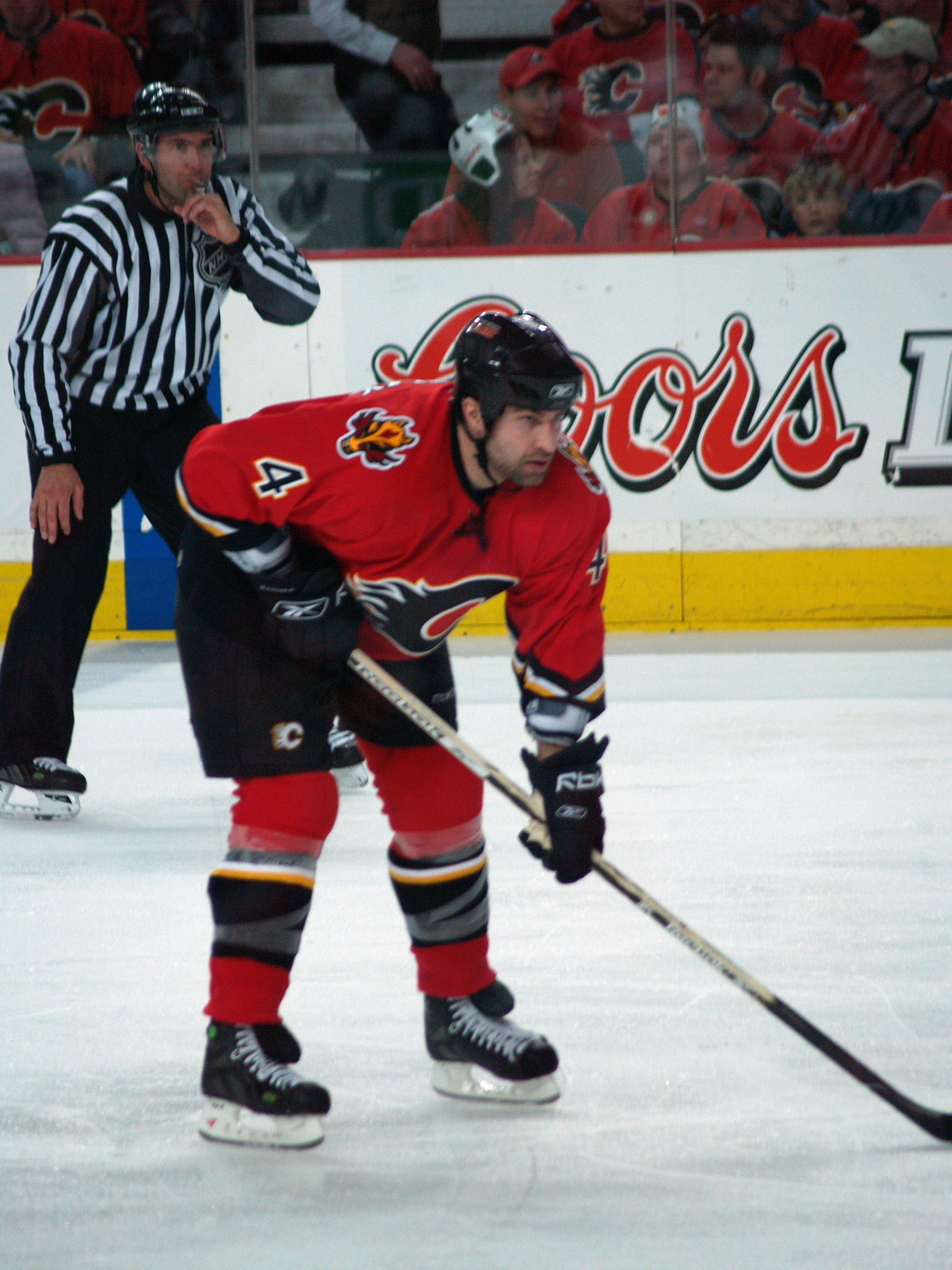 Roman Hamrlik of the Calgary Flames at the Pengrowth Saddledome, Calgary, Alberta